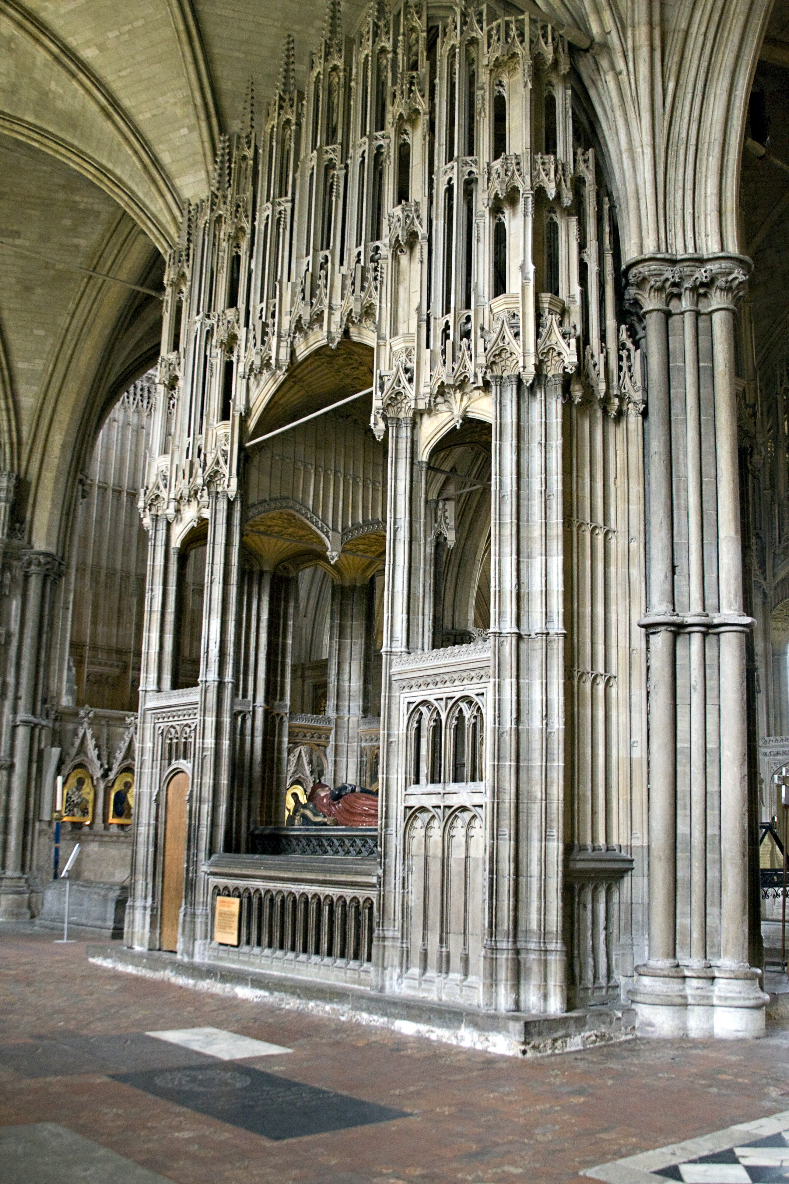 Chantry tomb of Cardinal Henry Beaufort, Bishop of Winchester, in Winchester Cathedral